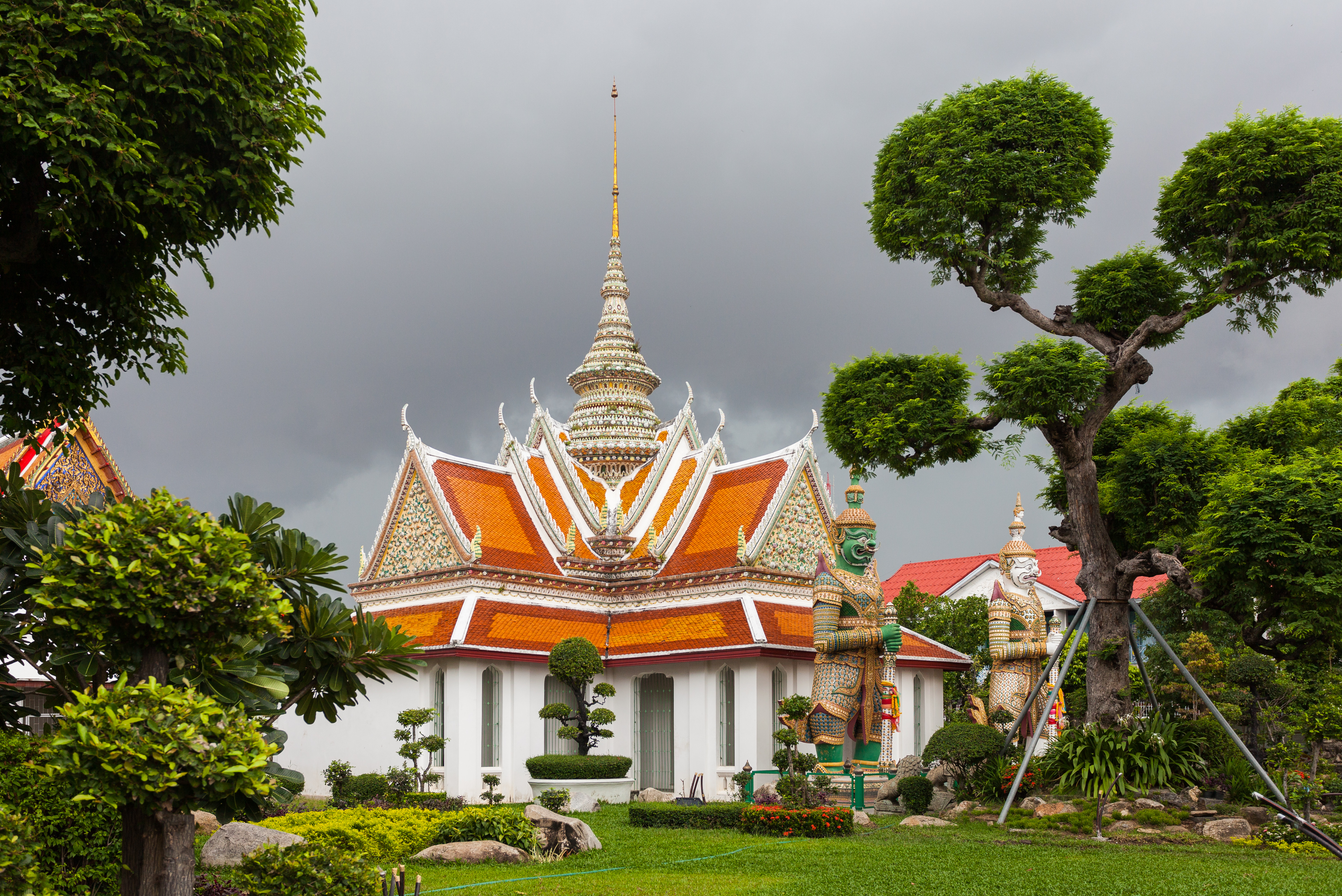 Entrance doorway to ordination hall with Yaksha guardians in the Wat Arun Temple, Bangkok, Thailand.